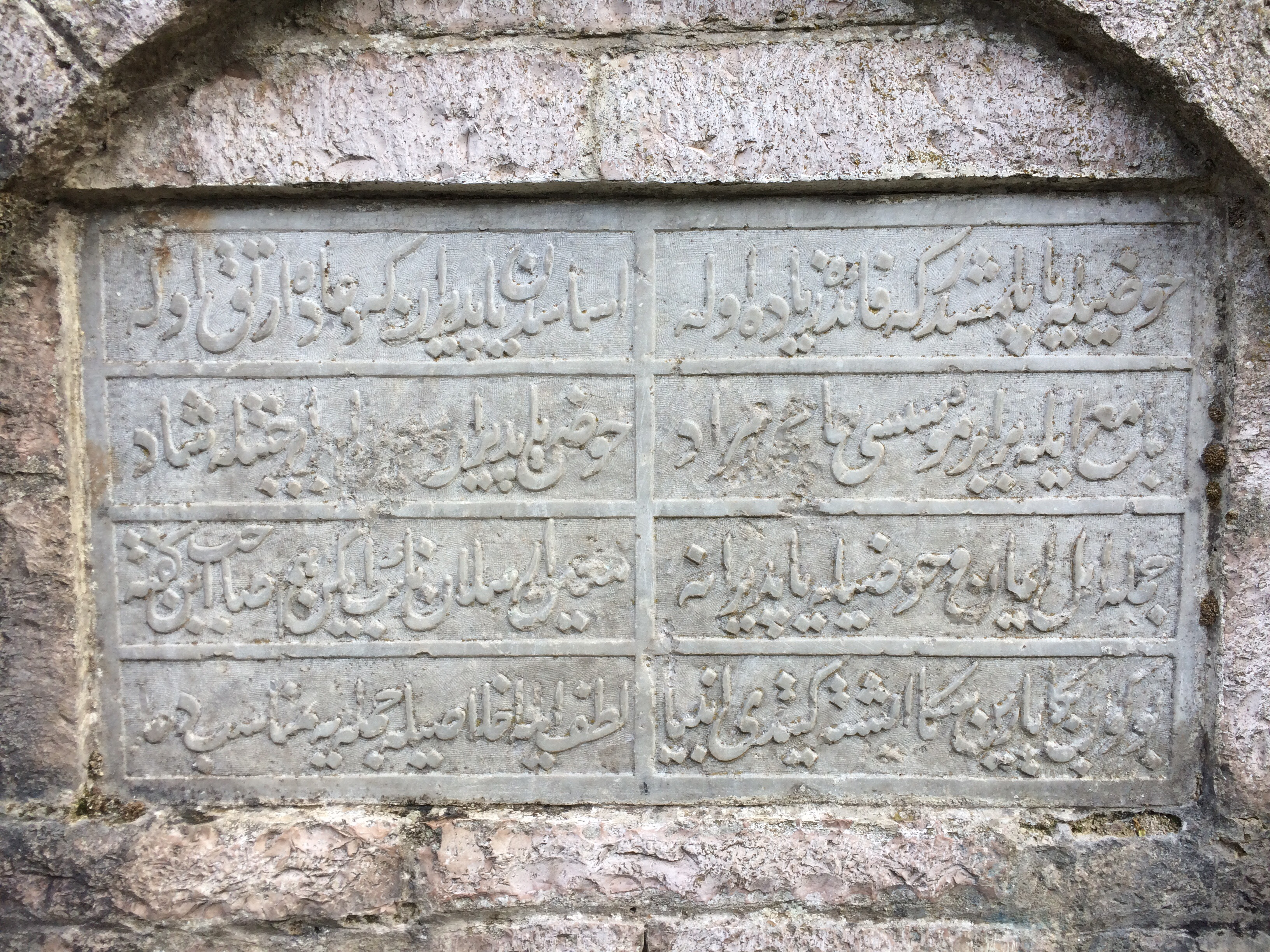 Inscription of the former fountain of the Meçite Mosque